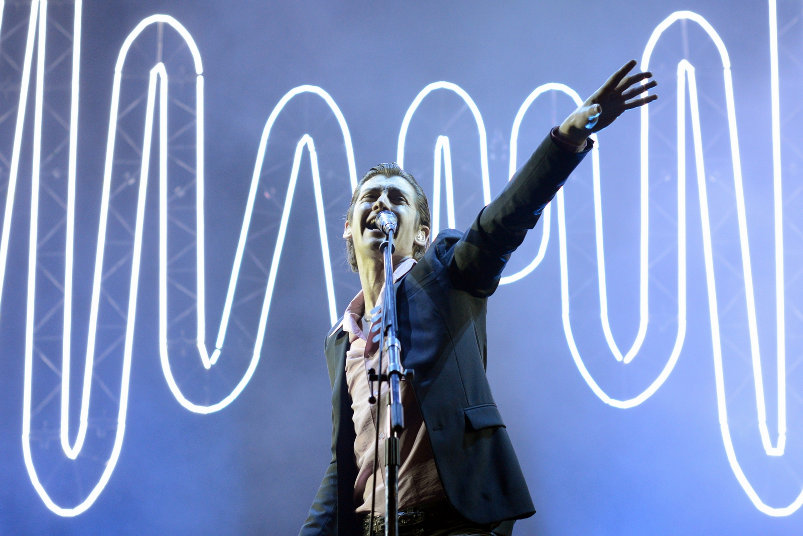 Rio de Janeiro (Brazil), 15/November/2014 - Arctic Monkeys @ HSBC Arena. Photo: Lucas Tavares / Agencia O Globo